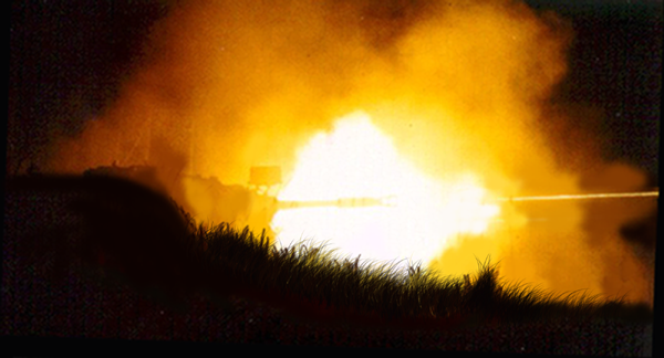 Night shooting at Wildflecken Firing Range during Reforger 84